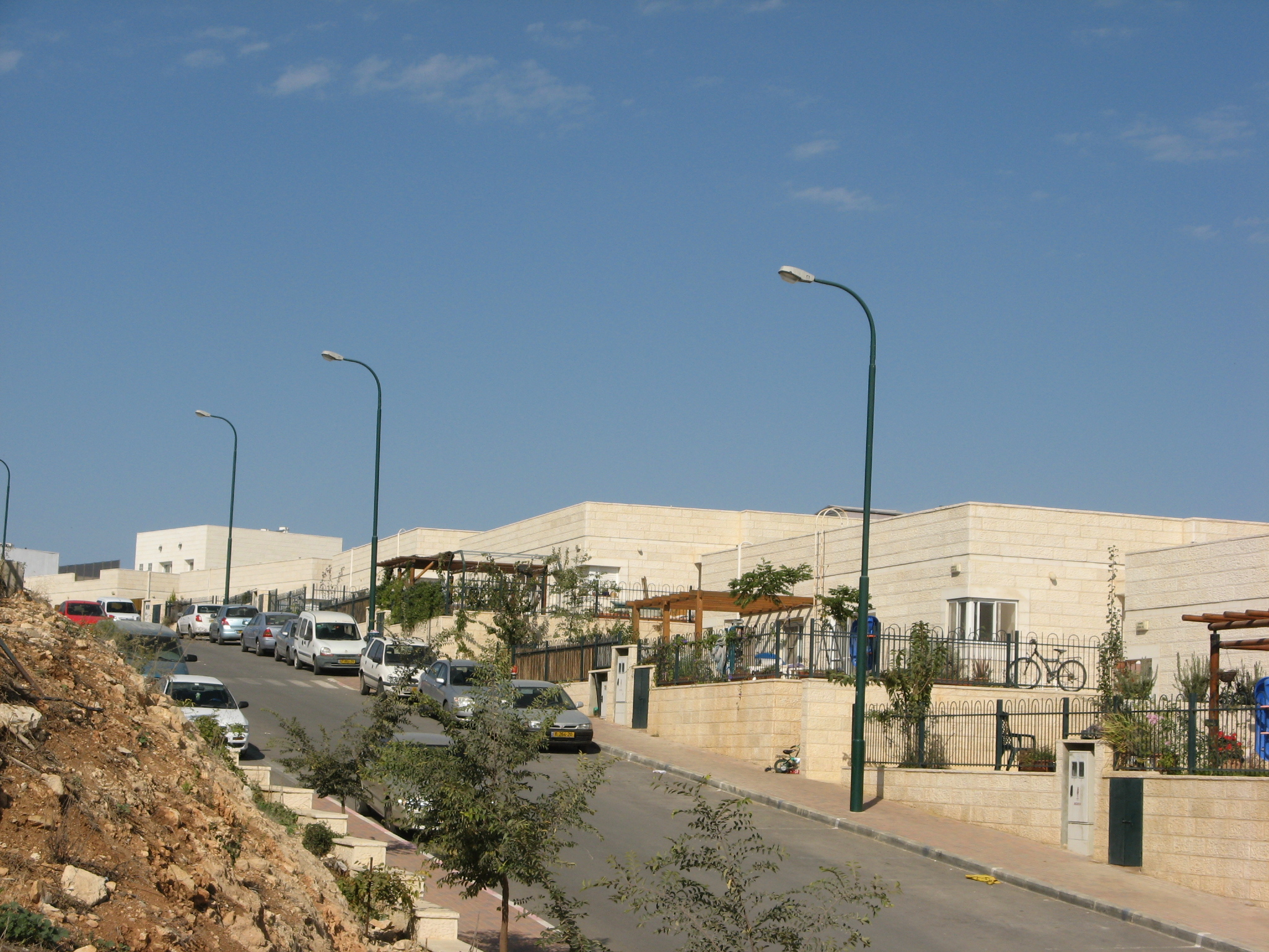 Street of non-Kibbutz new houses in Rosh Tzurim Kibbutz